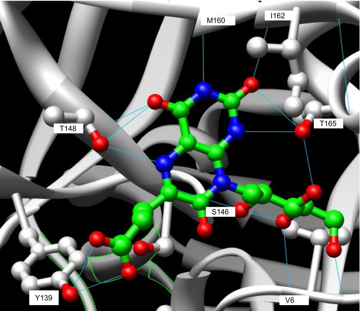 one ligand in one homodimer of riboflavin synthase